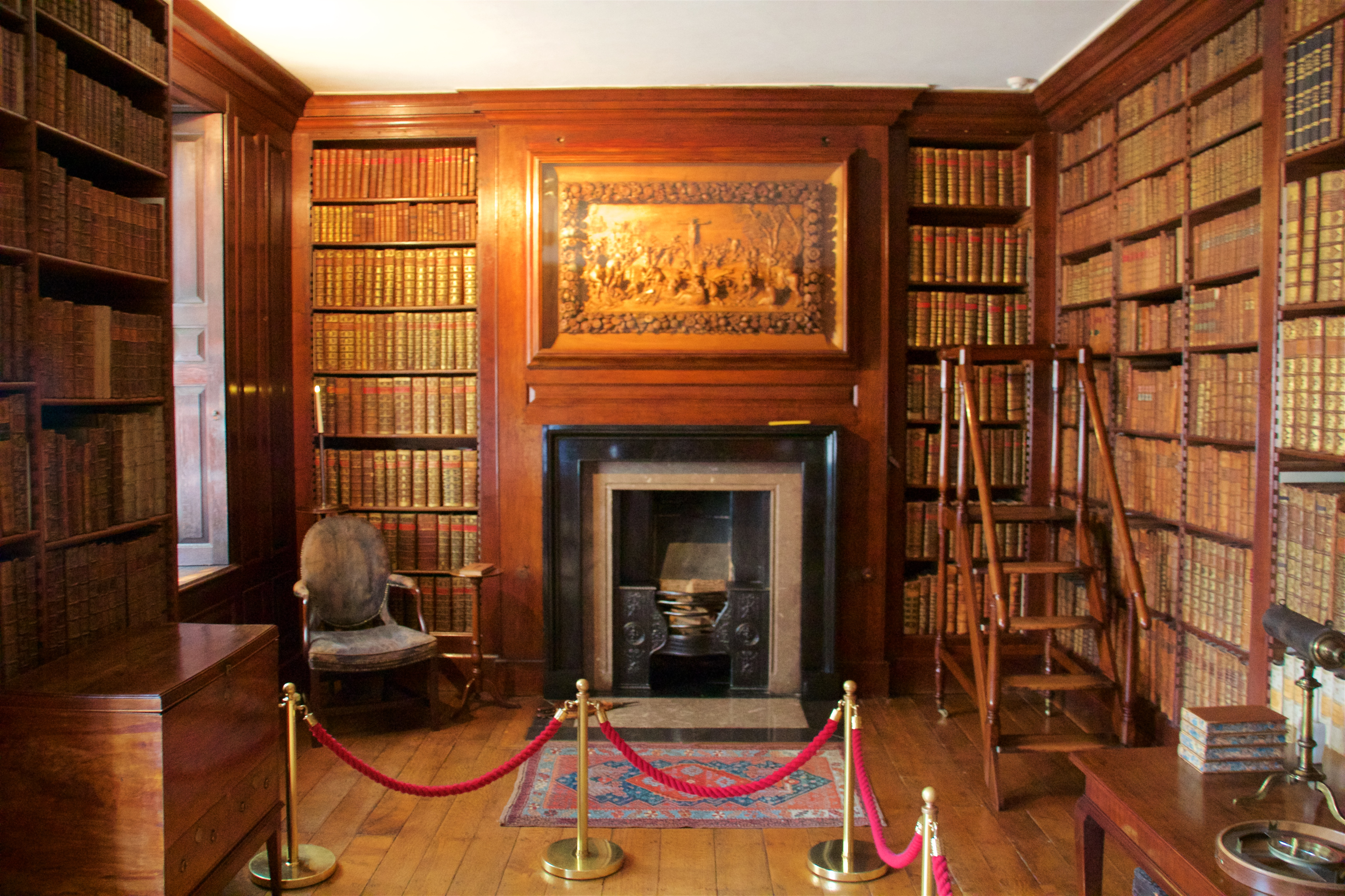 Dunham Massey Hall, United Kingdom